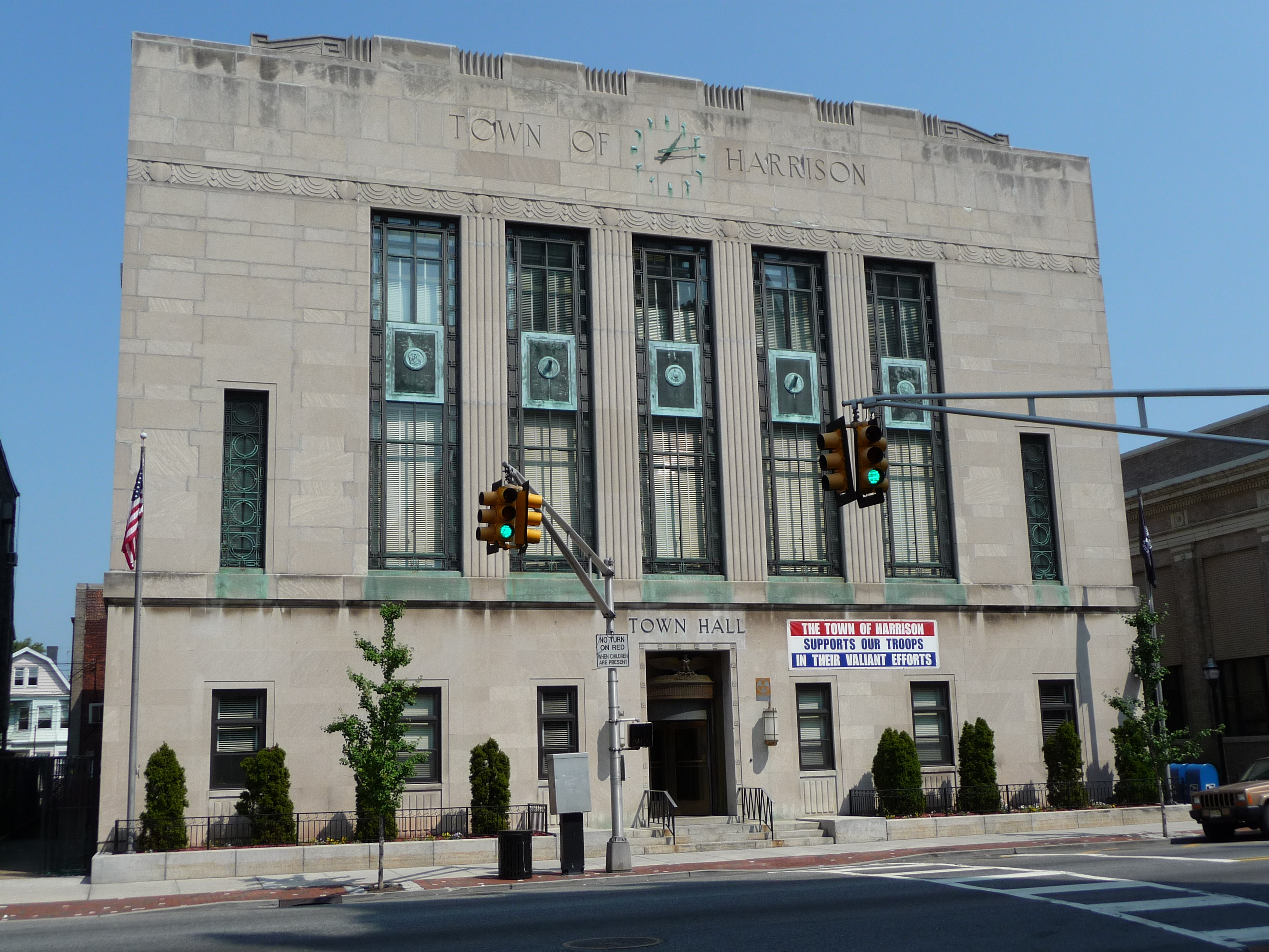 Exterior view of Town Hall of Harrison, New Jersey, USA